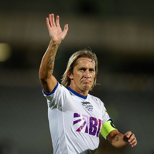 Míchel Salgado, captain of the world soccer stars team in Tehran for a charity football match in Iran.